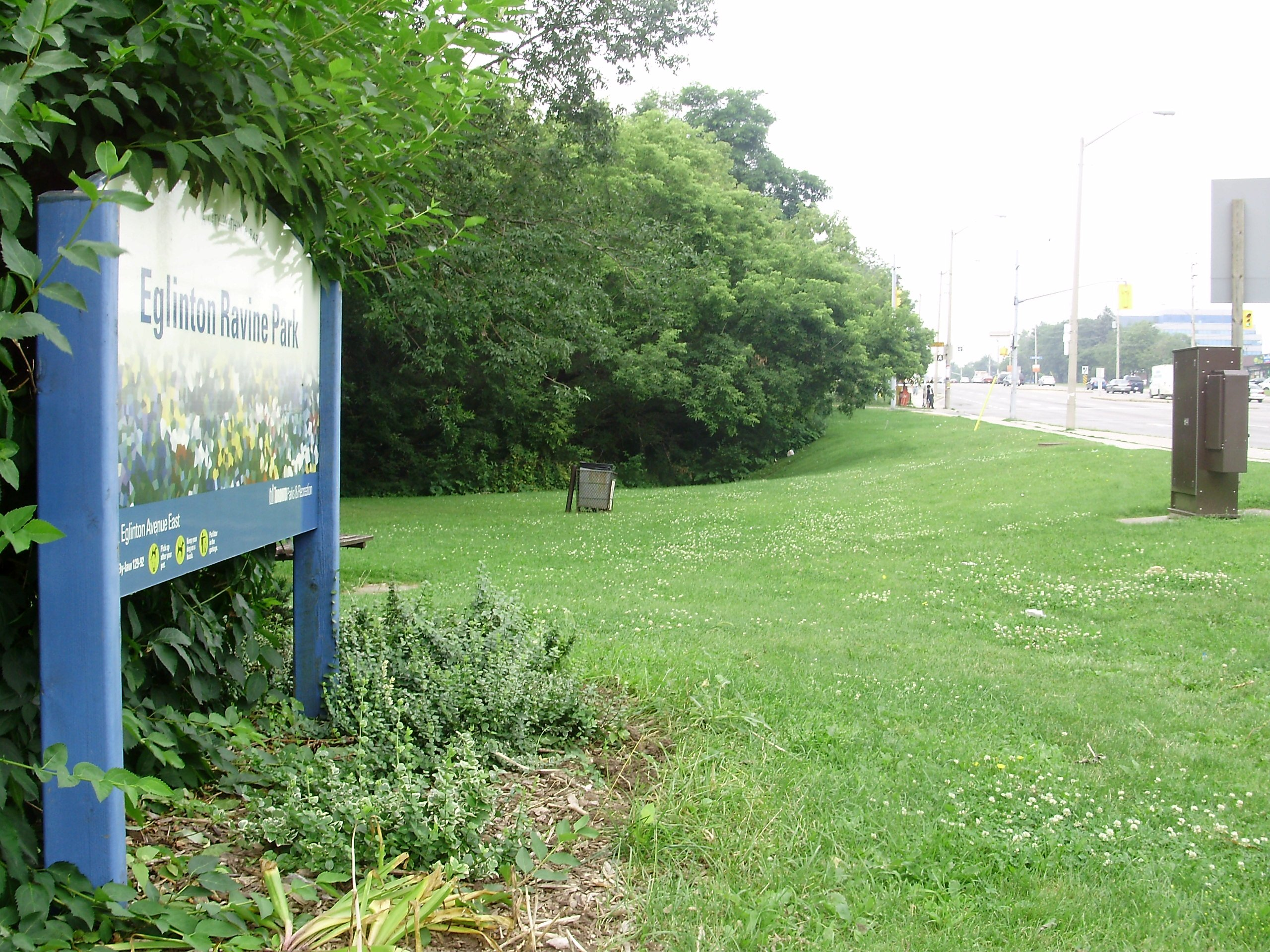 A view of the green space protected by Eglinton Ravine Park in the neighbourhood of Ionview in Scarborough, Canada. The Taylor-Massey Creek, a tributary of the Don River, flows within the ravine surrounded by trees in the center of the photo.